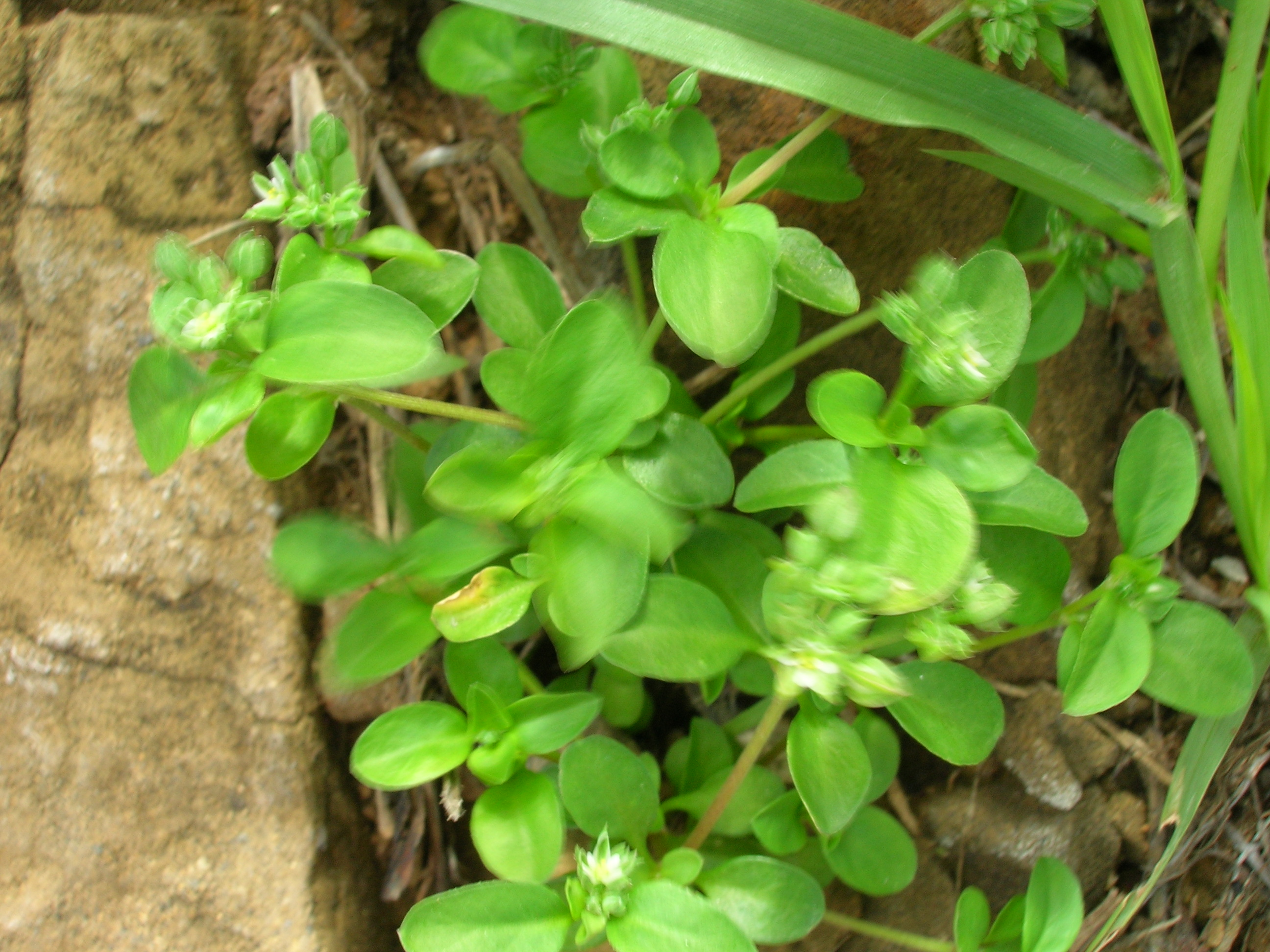 Polycarpon tetraphyllum (habit). Location: Maui, Molokini